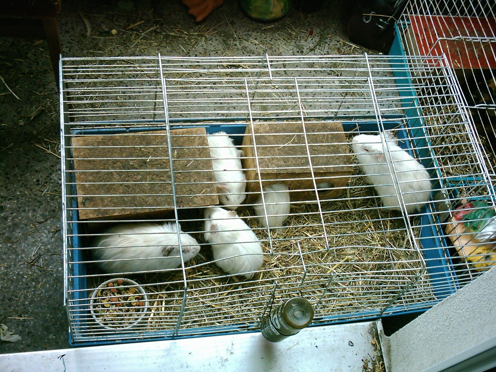 overcrowded cage with guinea pigs